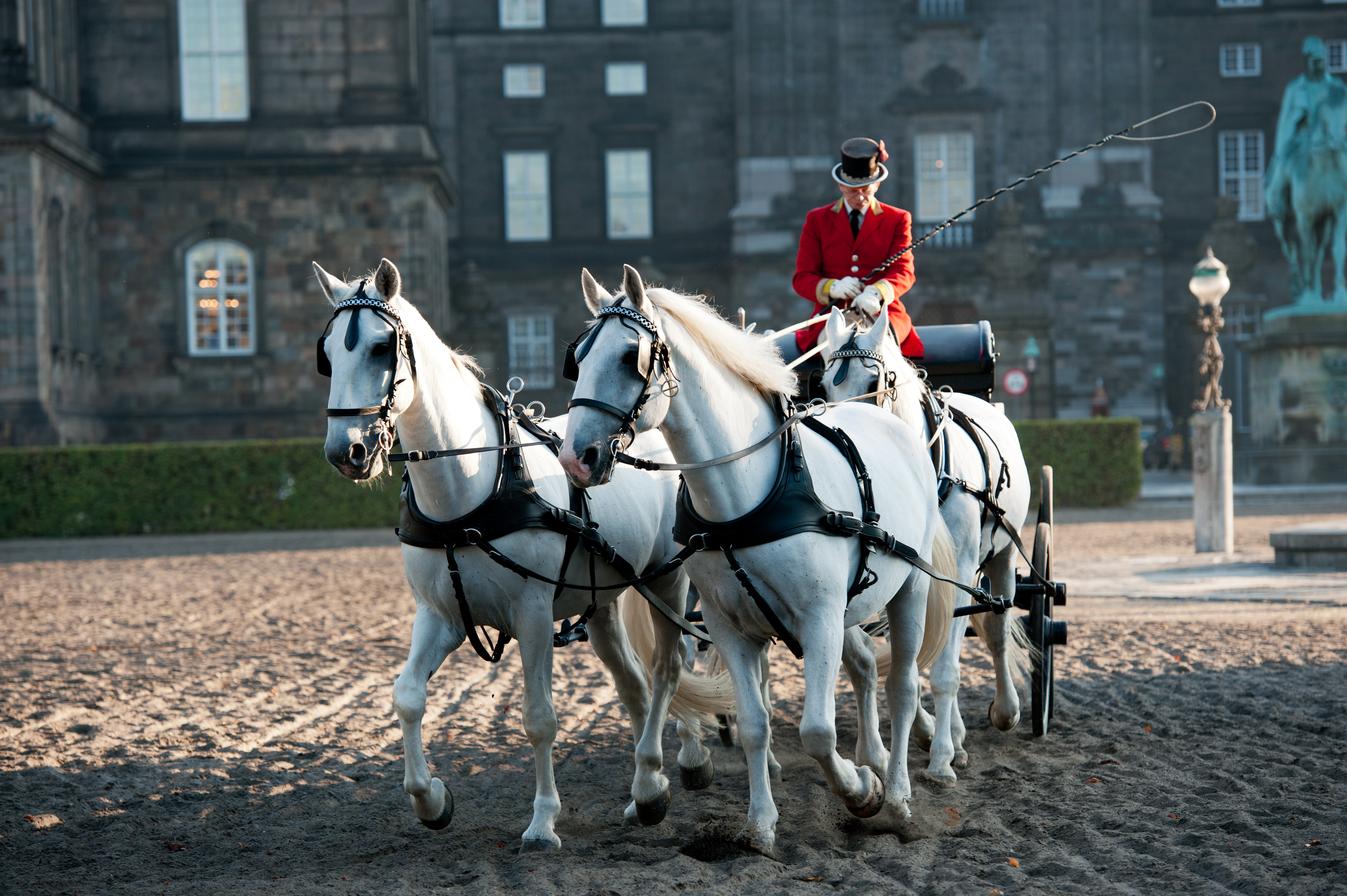 Scene from the Royal Stables, Christiansborg Castle, Copenhagen, Denmark Data-uid: 38801284-1dc6-4c27-abe2-ff4d274f6805